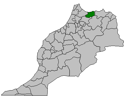 Location of province XY (see filename) in Morocco